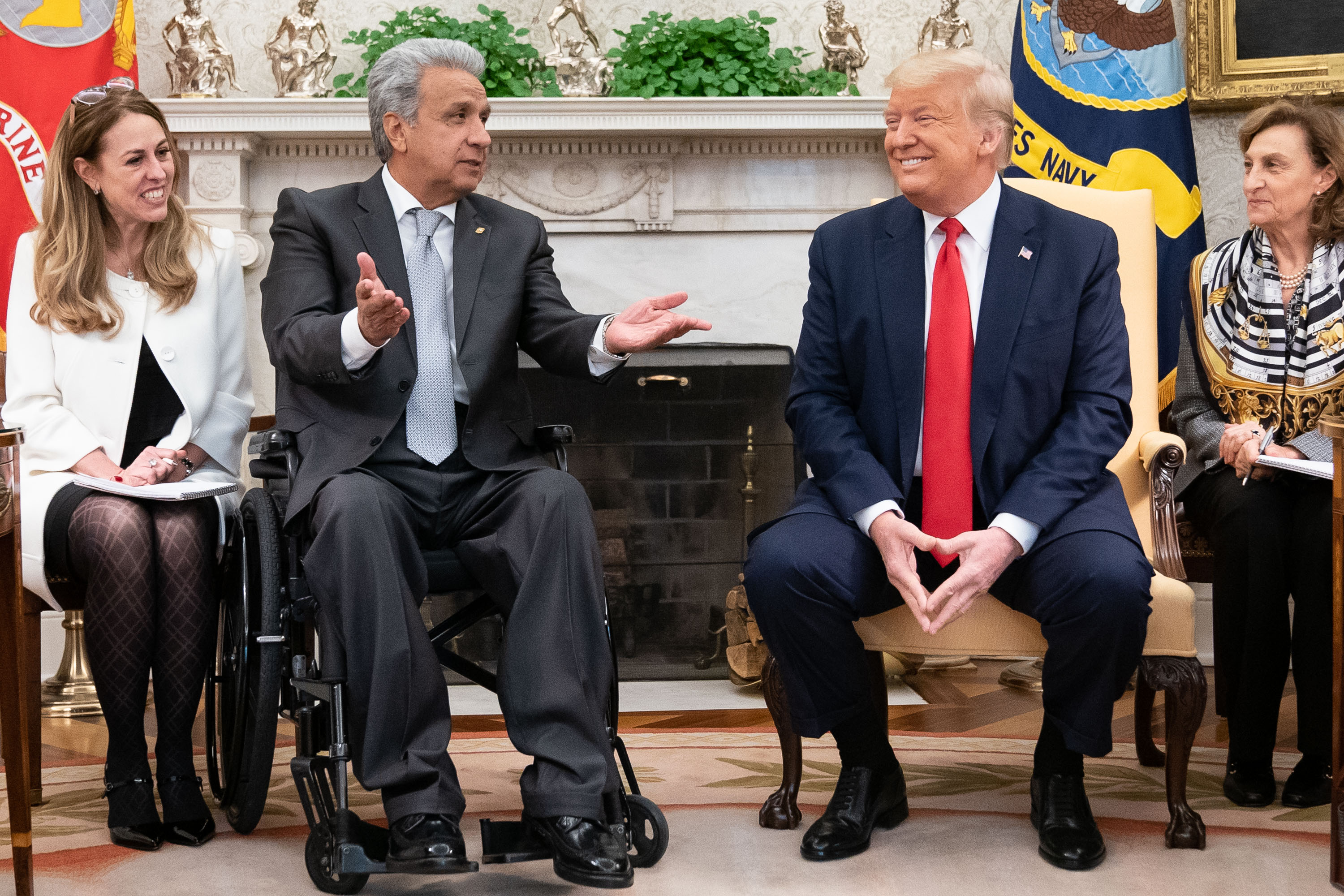 President Donald J. Trump, joined by Vice President Mike Pence, meets with Ecuadorian President Lenin Moreno Garces Wednesday, Feb. 12, 2020, in the Oval Office of the White House. (Official White House Photo by Joyce N. Boghosian)